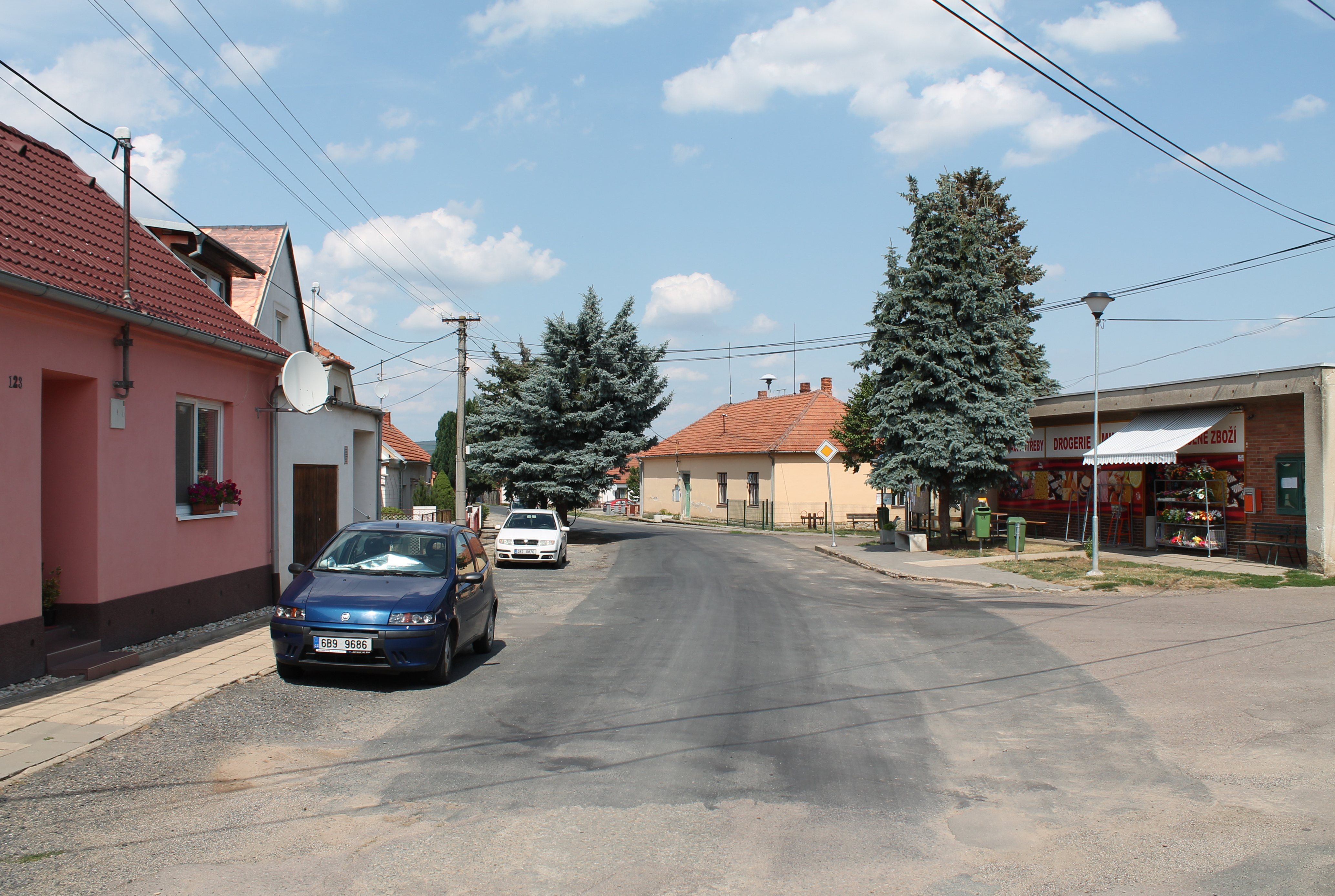 Budkovice, Ivančice, Brno-Country District, Czech Republic